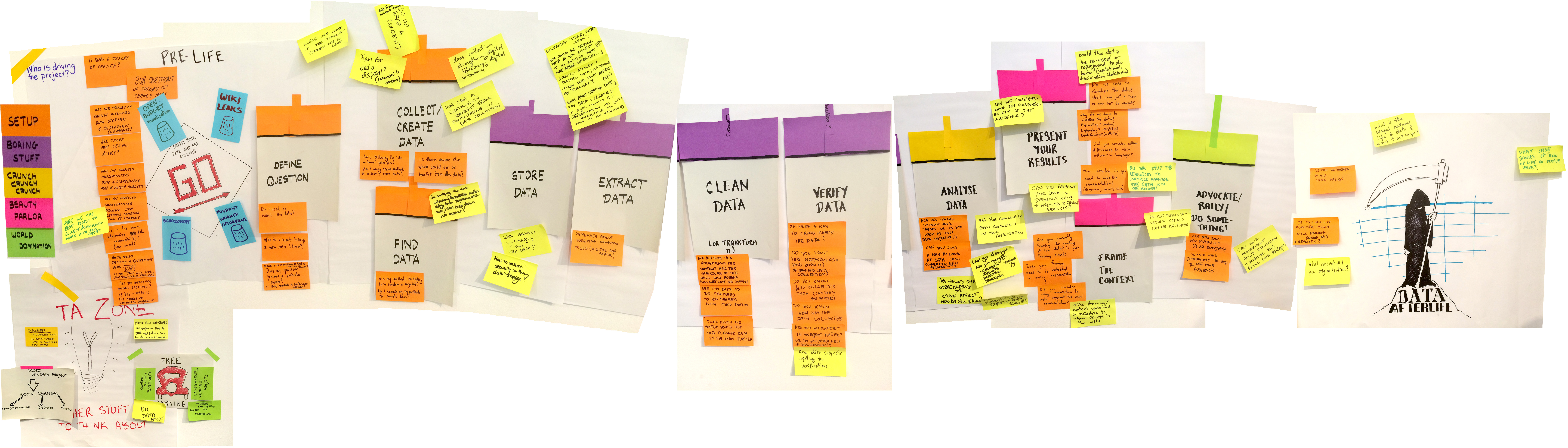 Result of the Responsible Data Forum Resource Sprint, Oct 2014, Budapest